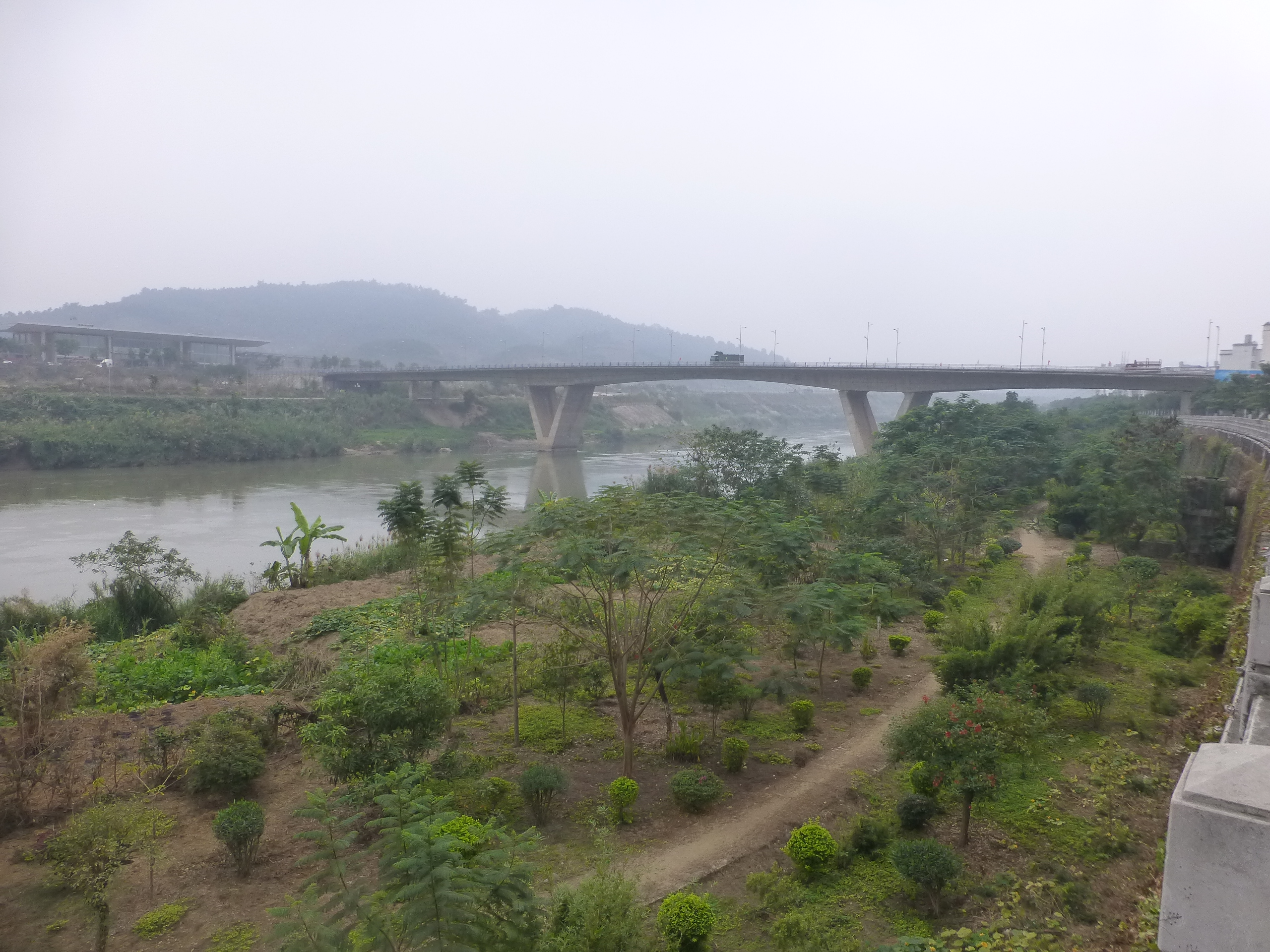 The new border crossing on the north side of Hekou Town, with a bridge spanning the Red River from Hekou in China to Kim Thành in Vietnam